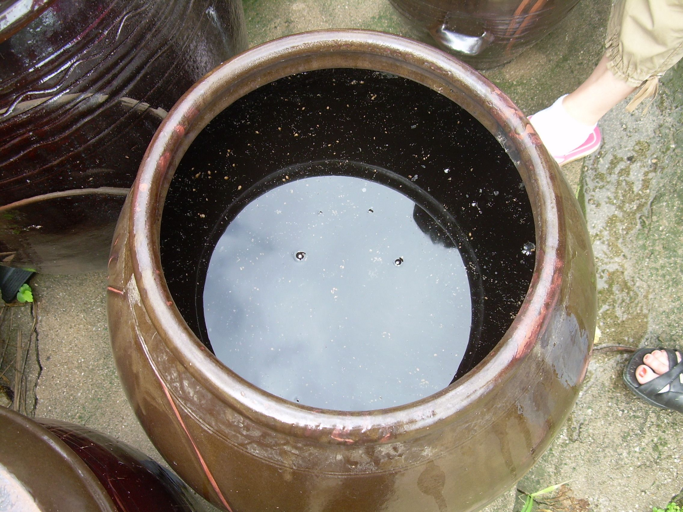 Traditionally Korean soy sauce was produced at home in earthen jars